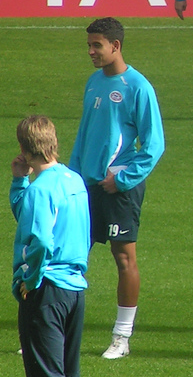 Jonathan Reis.